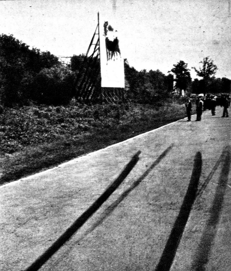 The Curva Grande, the Curva di Lesmo, the Variante Ascari or the Curva Parabolica, multiple names given to the where Alberto Ascari killed during private testing.